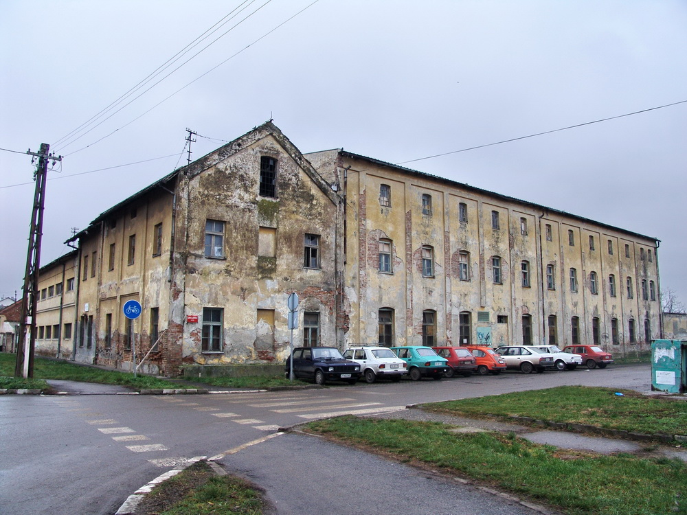 The building of former camp in Zrenjanin, street view